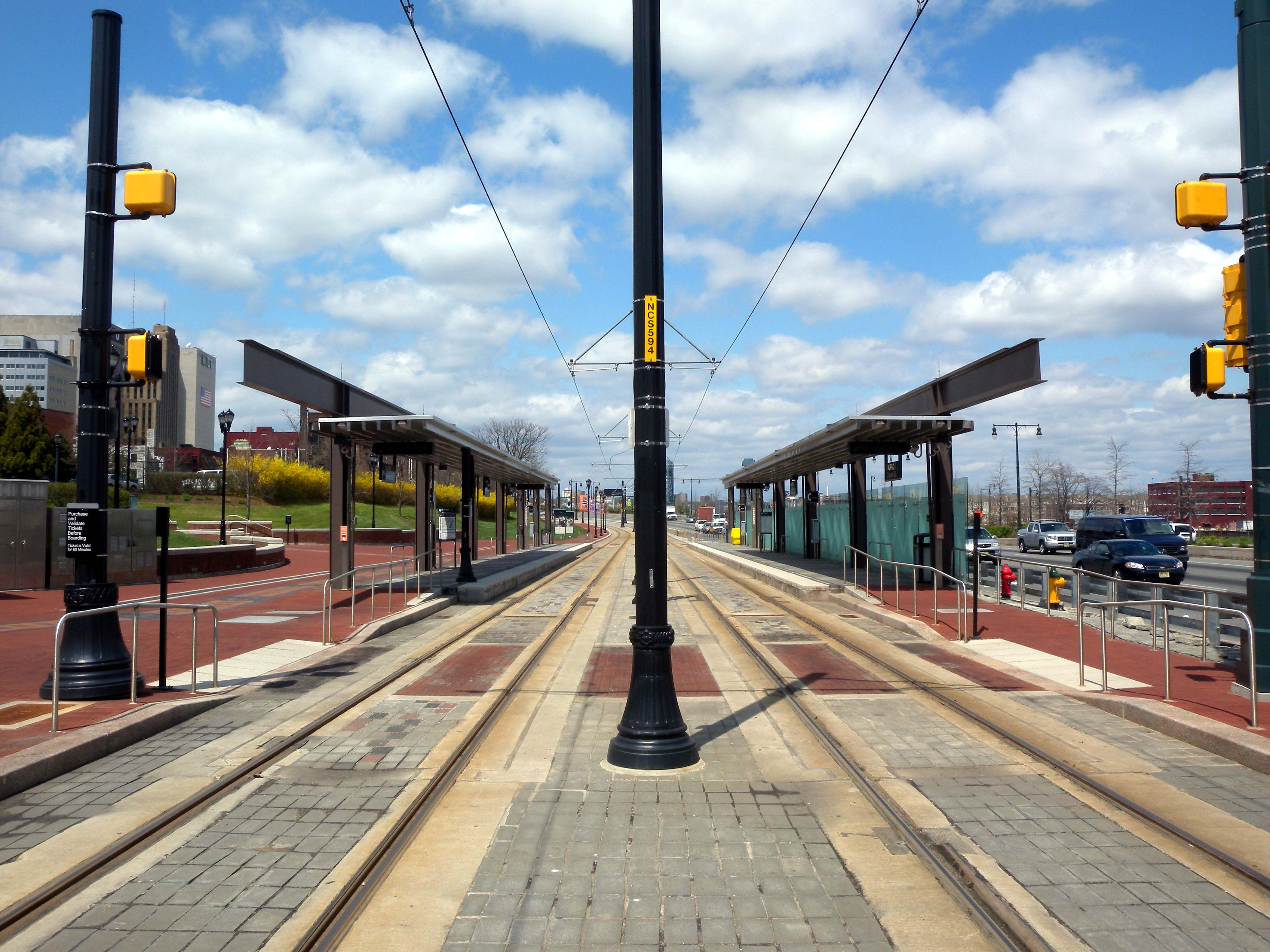 Looking northwest at NJPAC/Center Street (NLR station) on a sunny midday.